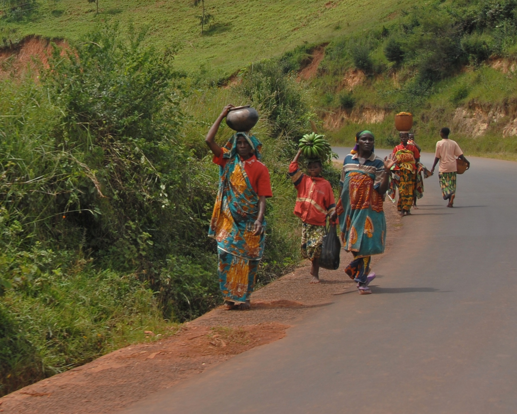 Road between Bujumbura and Gitega